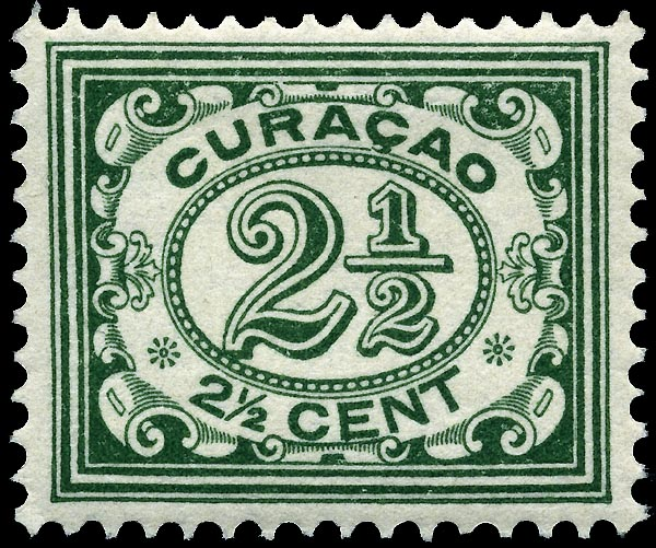 Netherlands Antilles 2 1/2c stamp of 1915